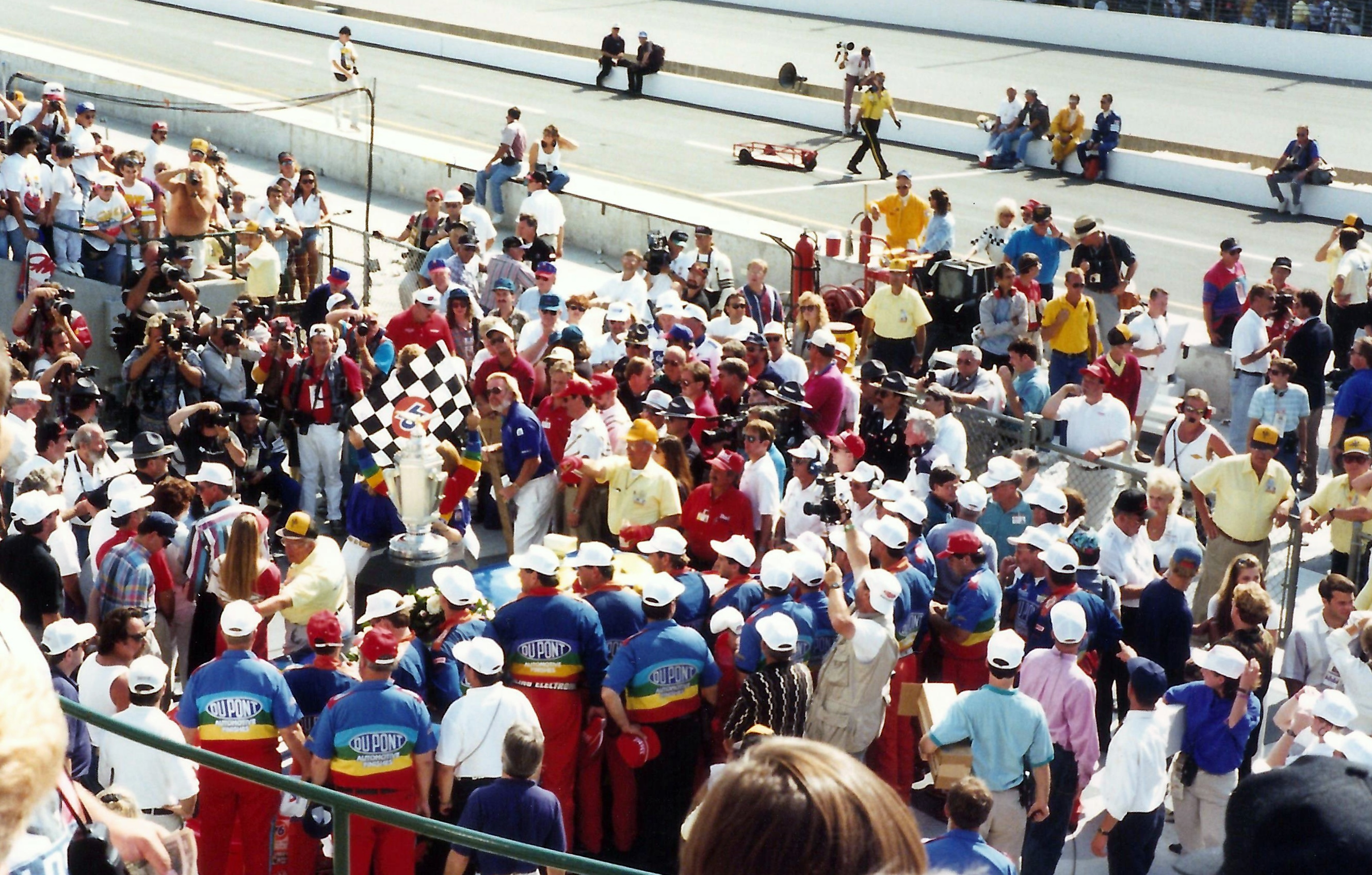 1994 NASCAR Brickyard 400 at the Indianapolis Motor Speedway. Jeff Gordon in victory lane.